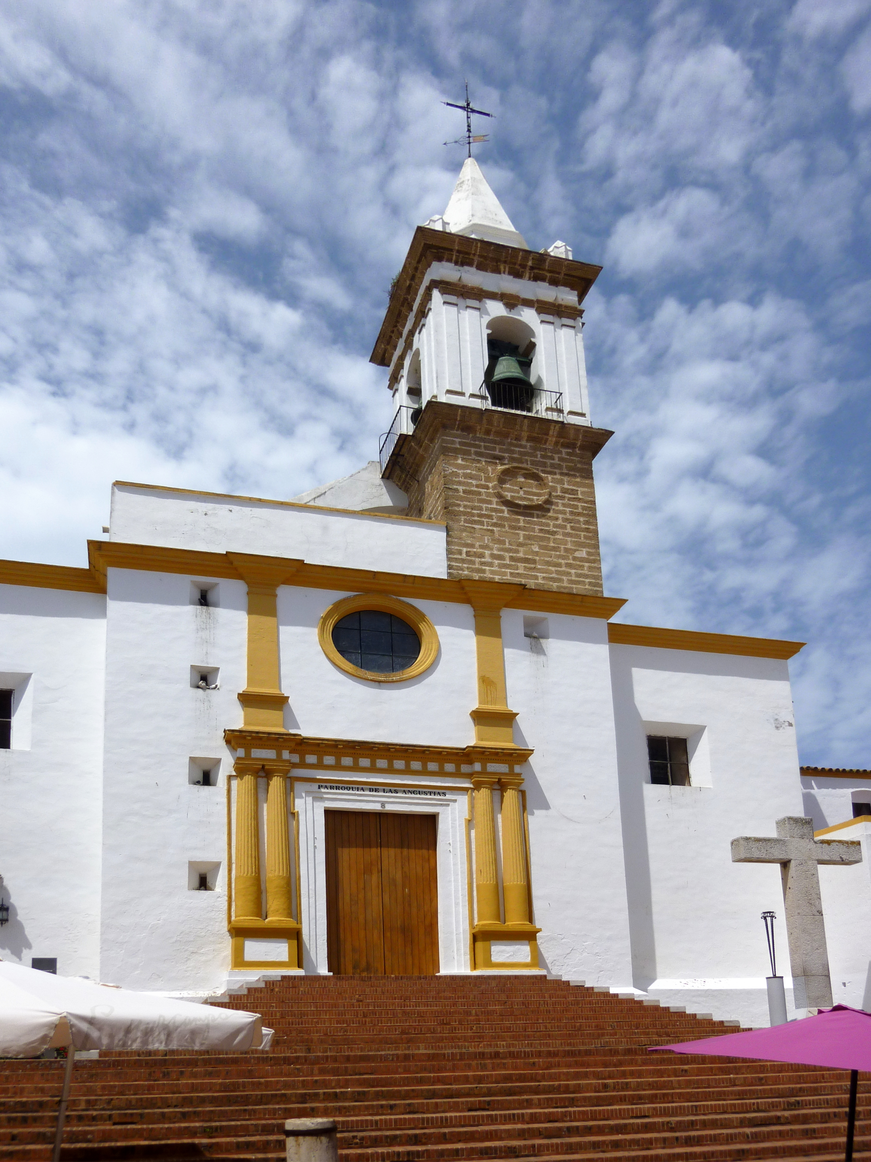 Iglesia de las Angustias in Ayamonte